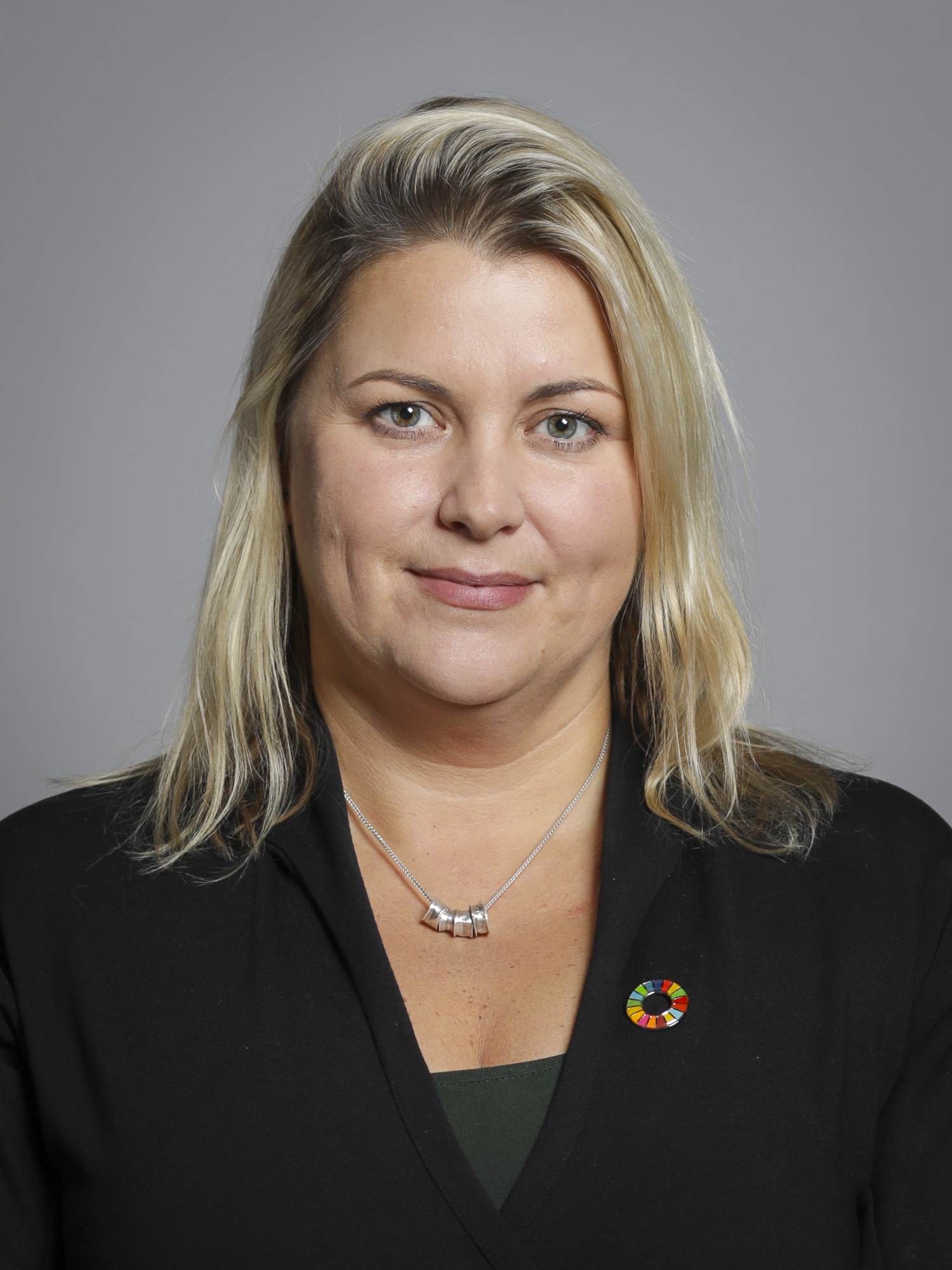 Official portrait of Baroness Sugg 3×4 portrait of Baroness Sugg